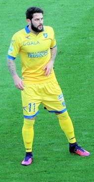 Oliver Kragl, Frosinone football player